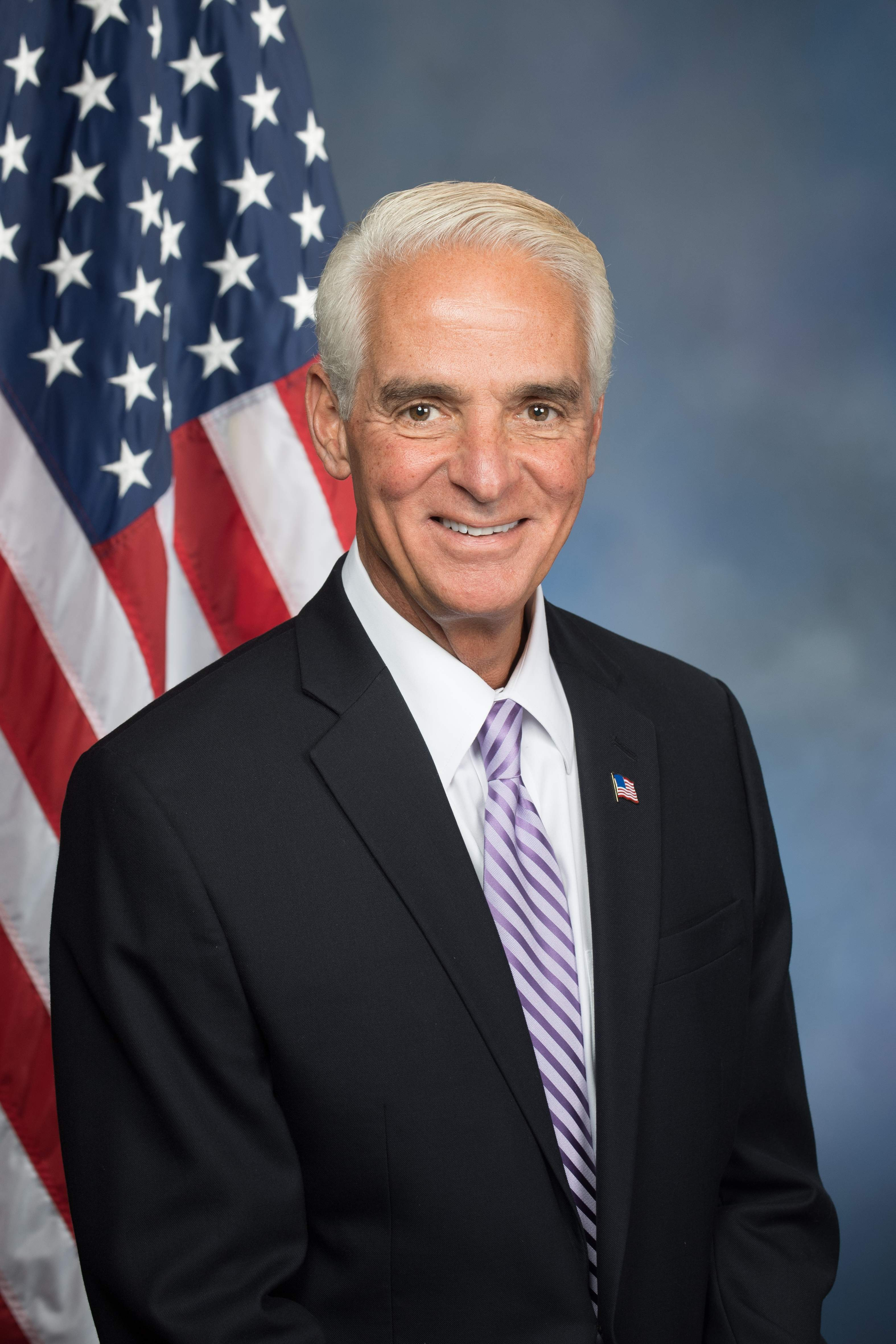 US Congressman Charlie Crist, FL